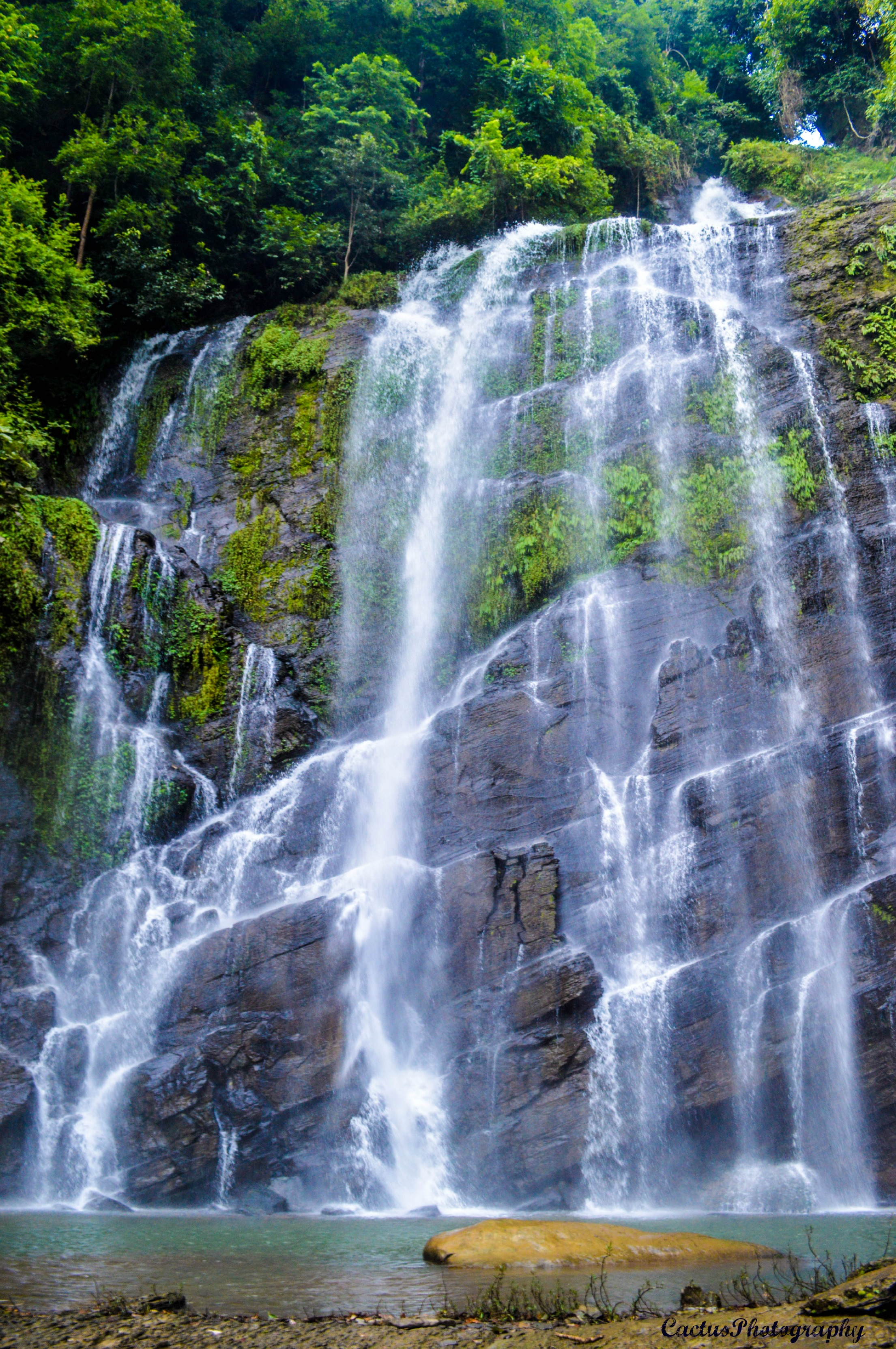 Nature Of Beauty, Jadipai Water Fall, Bandarban, Bangladesh